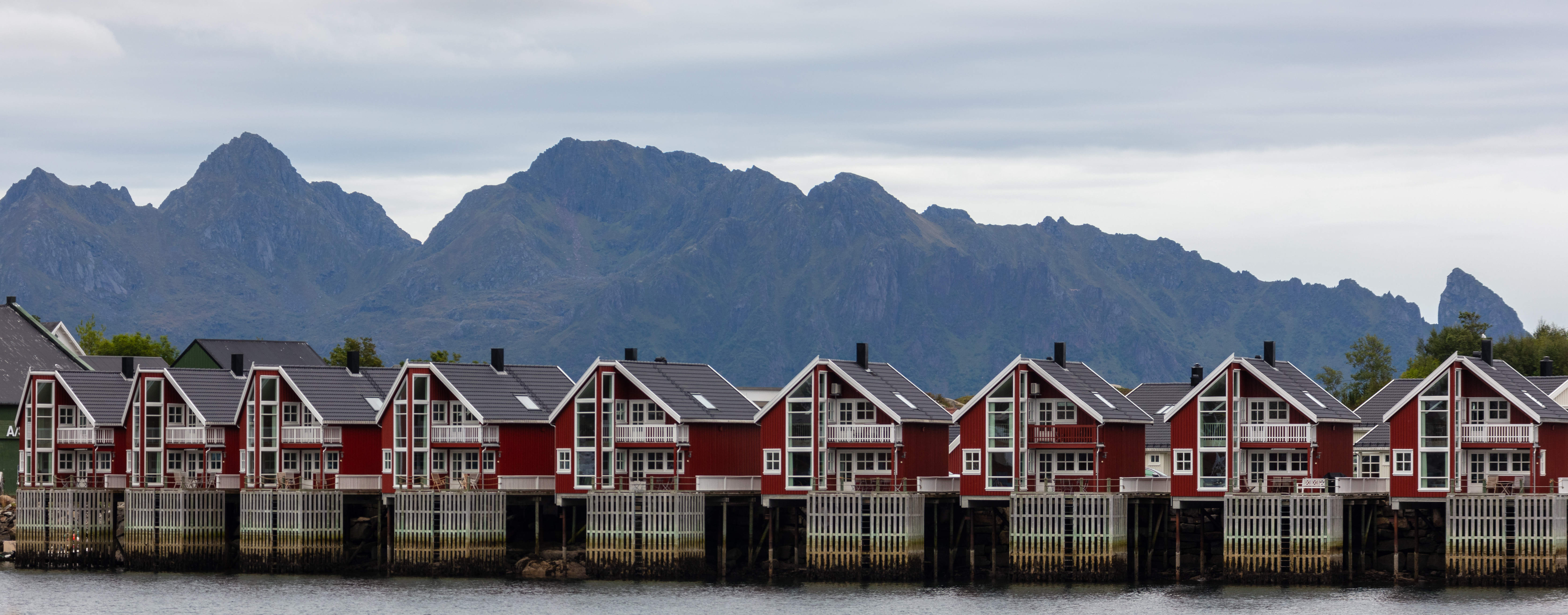 Svolvær, Lofoten, Norway